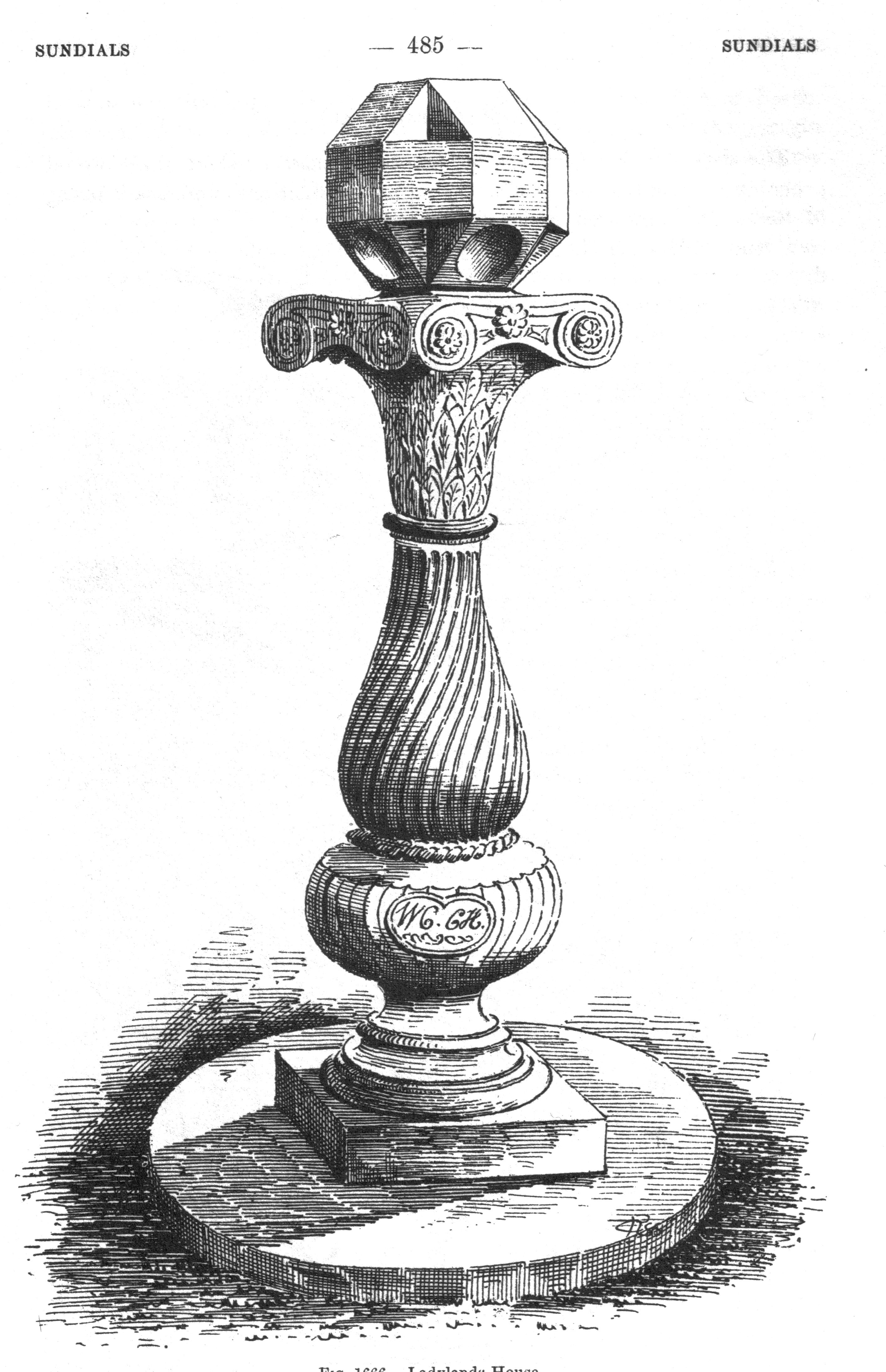 Sundial at Ladyland House, Kilbirnie, North Ayrshire, Scotland